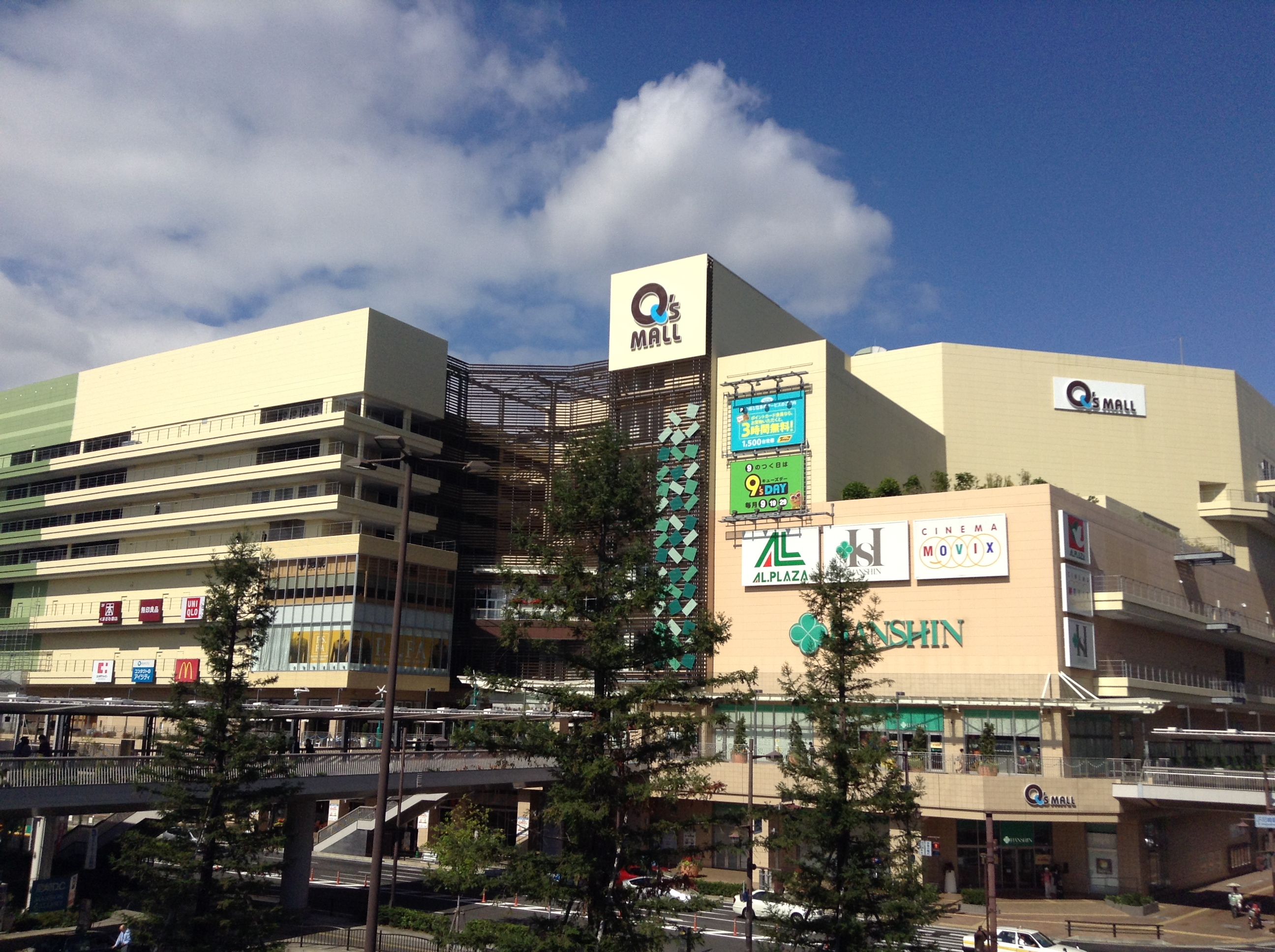 Amagasaki Q's mall in Amagasaki-city, Hyogo-Prefecture.